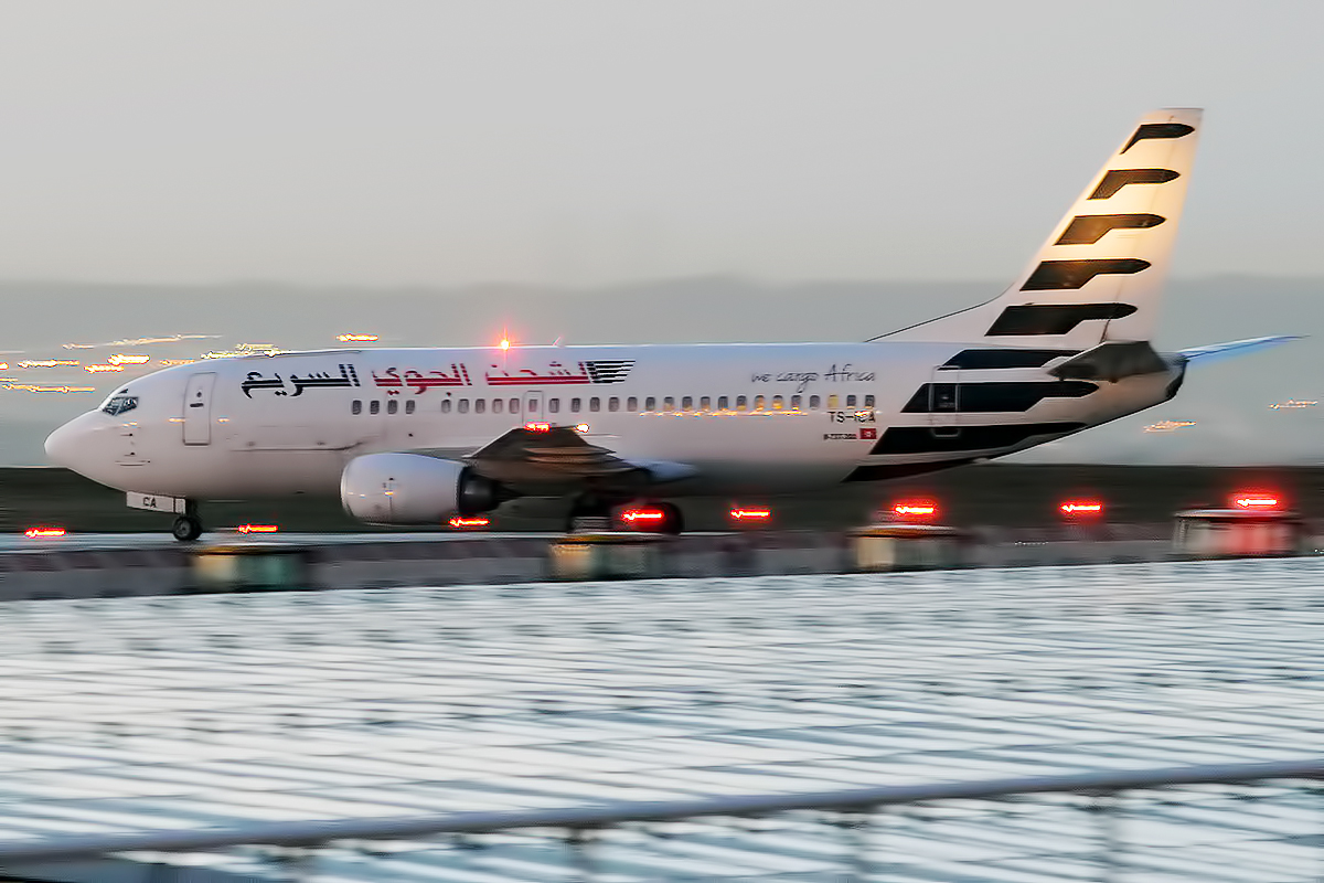 Express Air Cargo, TS-ICA, Boeing 737-330(QC)